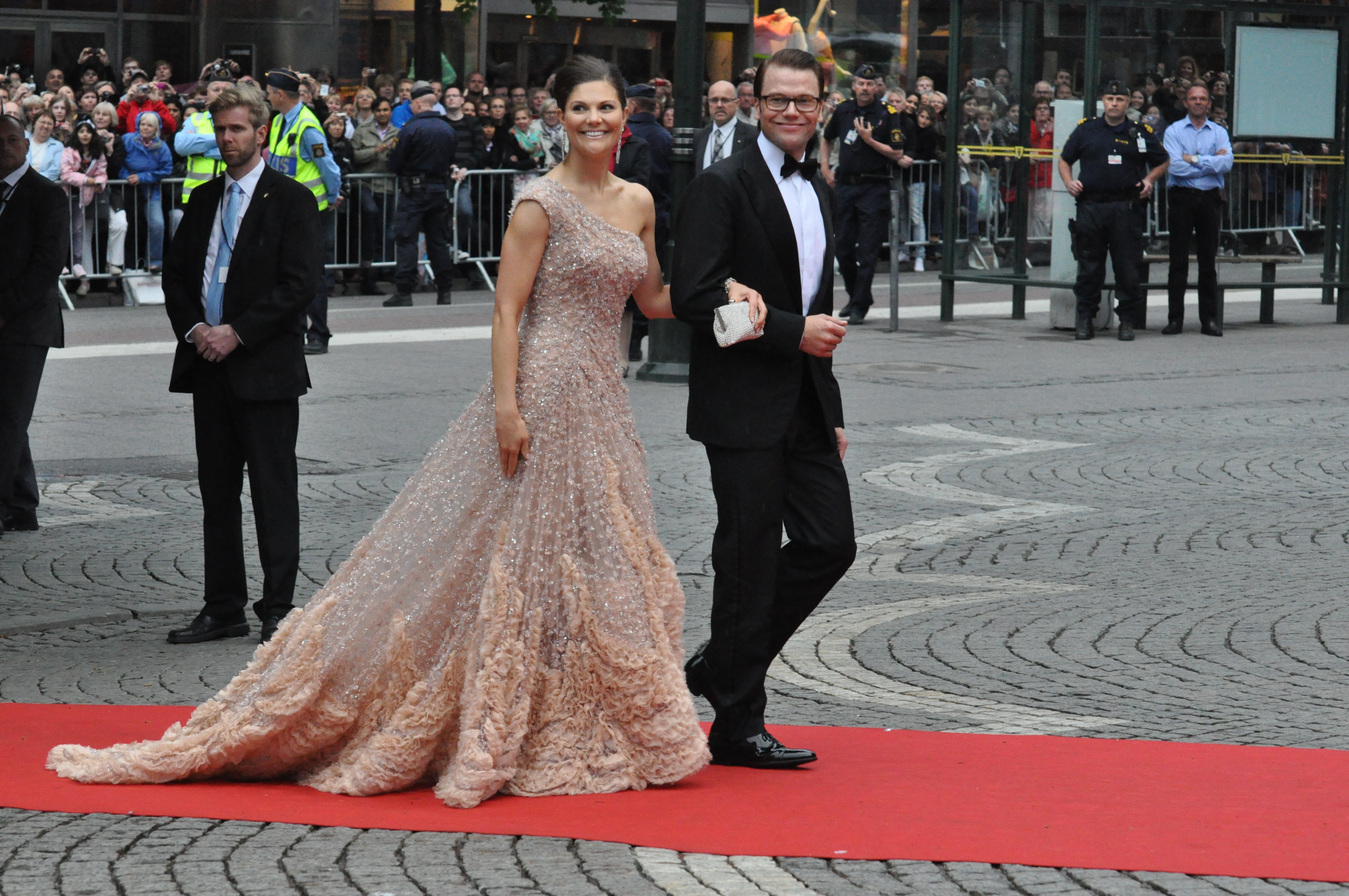 Wedding of Victoria, Crown Princess of Sweden, and Daniel Westling; Arrival to the Riksdag's Gala Performance at Konserthuset: HRH Victoria and Daniel